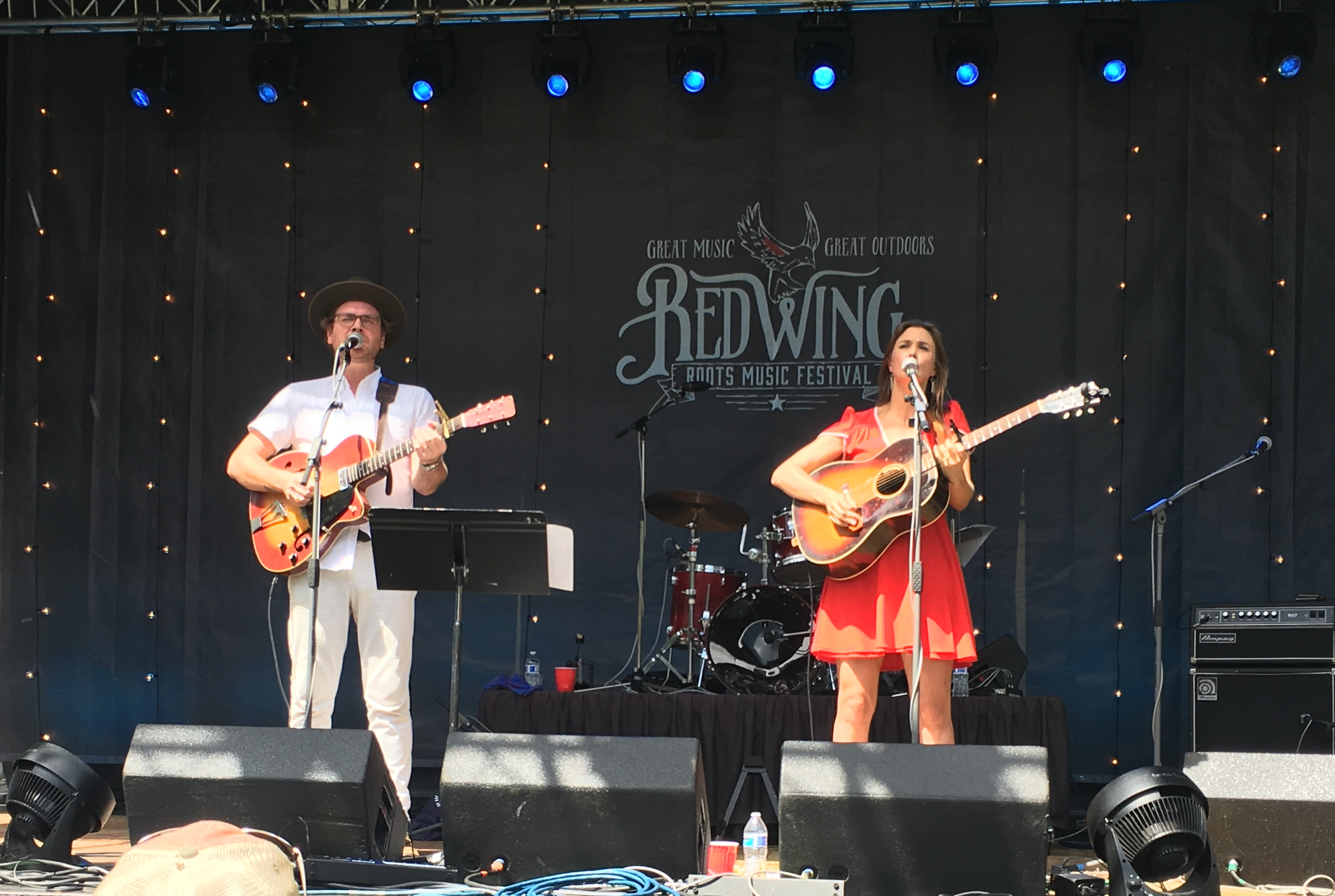 Jill Andrews and Peter Groenwald (Hush Kids) performing at the Red Wing Roots Music Festival VII in Natural Chimneys Regional Park